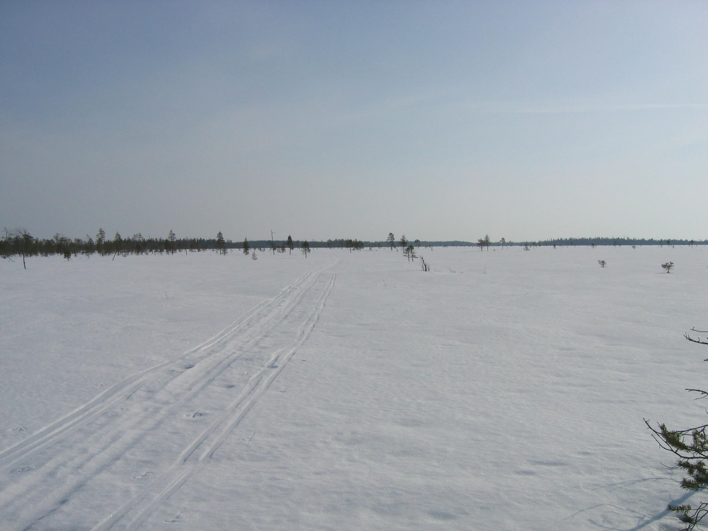 Snow that has been hardened due to Spring time weather in Yli-Ii, Finland.